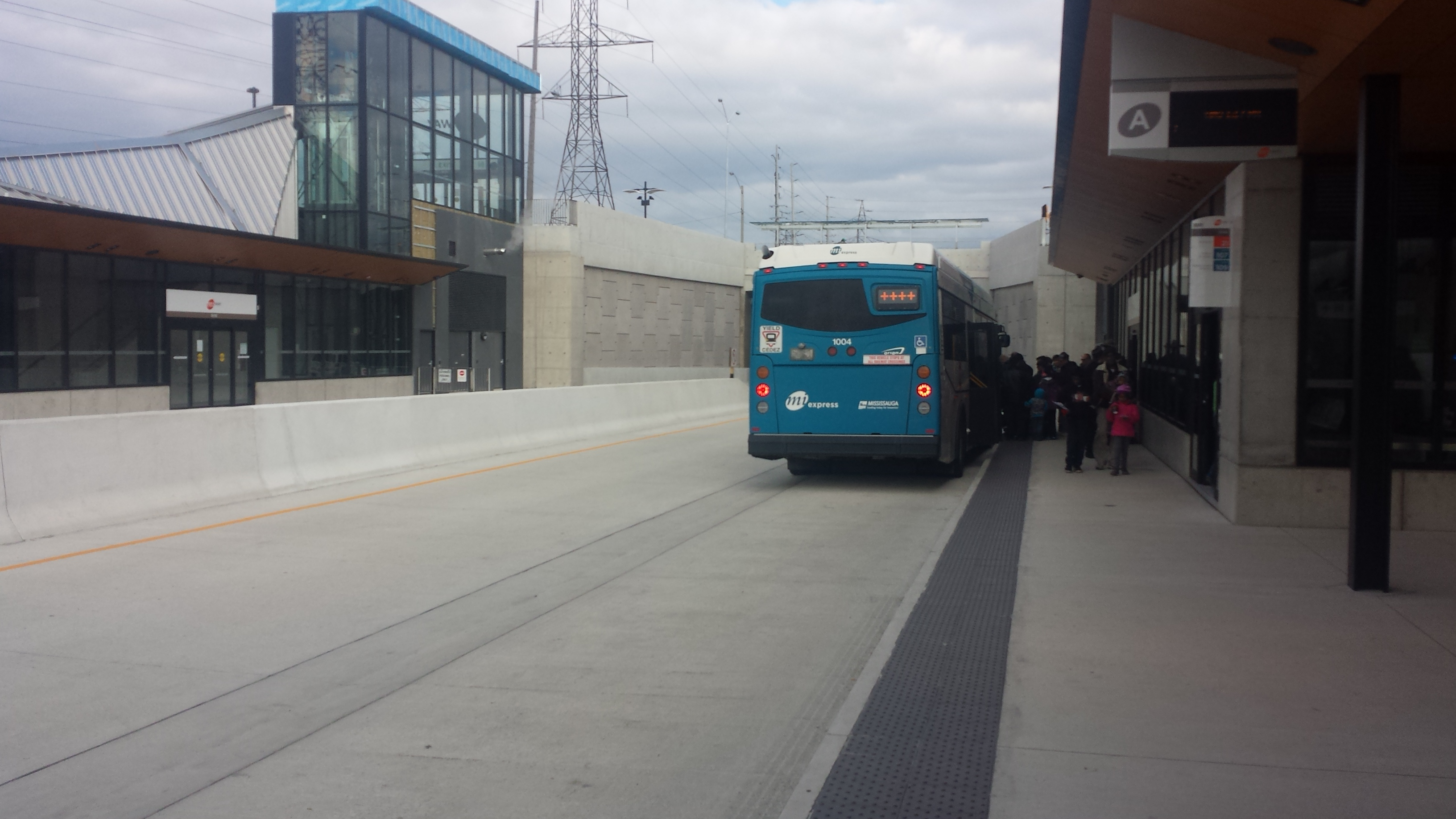 Mississauga Transitway Dixie Transitway Station